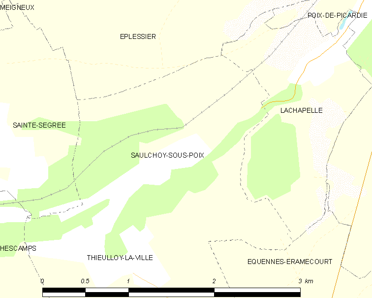 Map of French municipality Saulchoy-sous-Poix